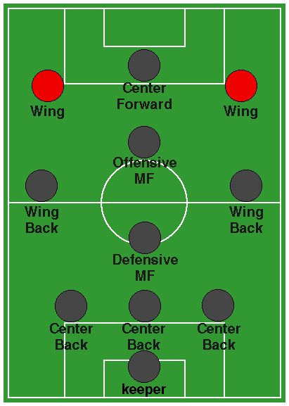 Position of WingForward